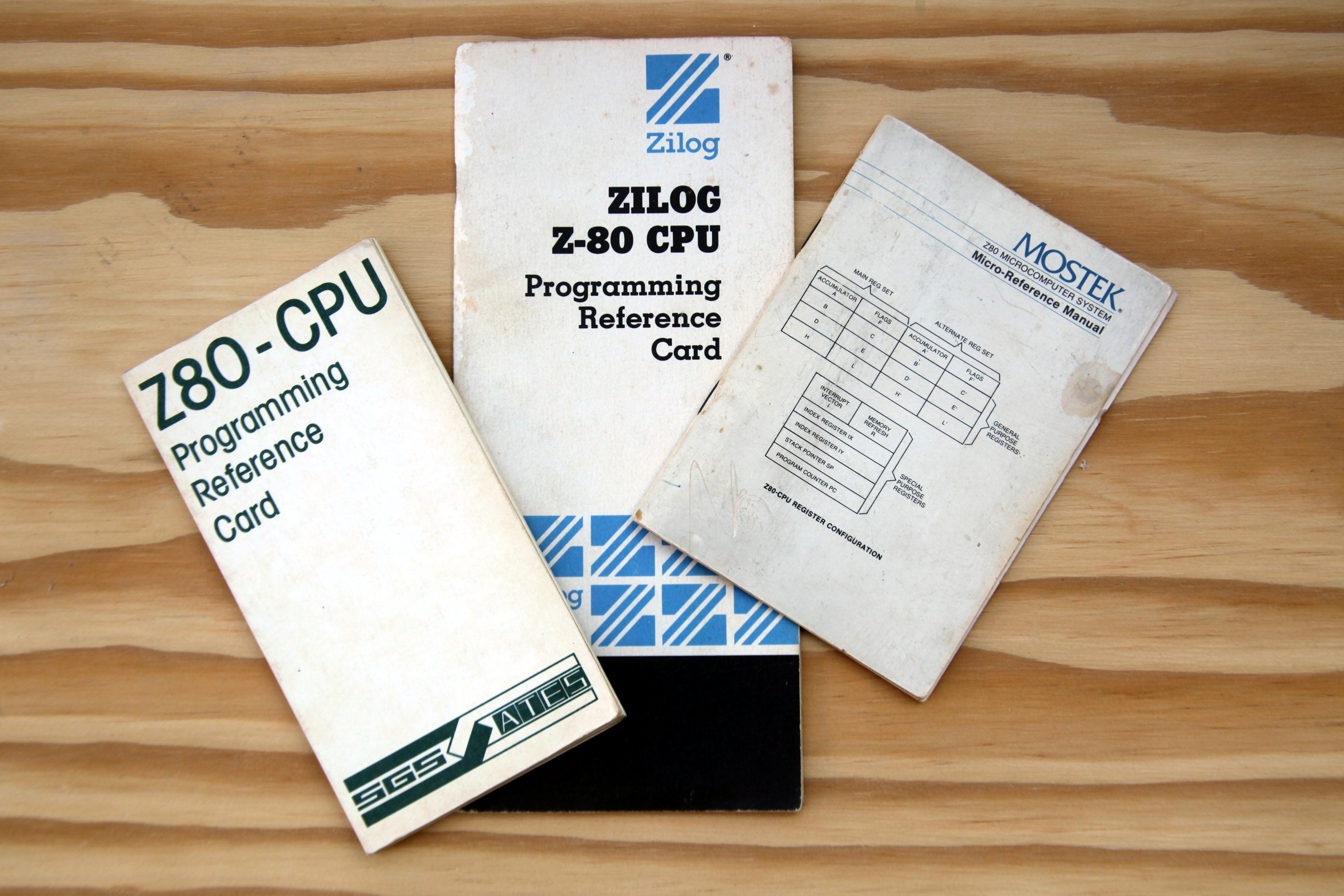 3 binding of manual "Z80 CPU Programming Reference Card"